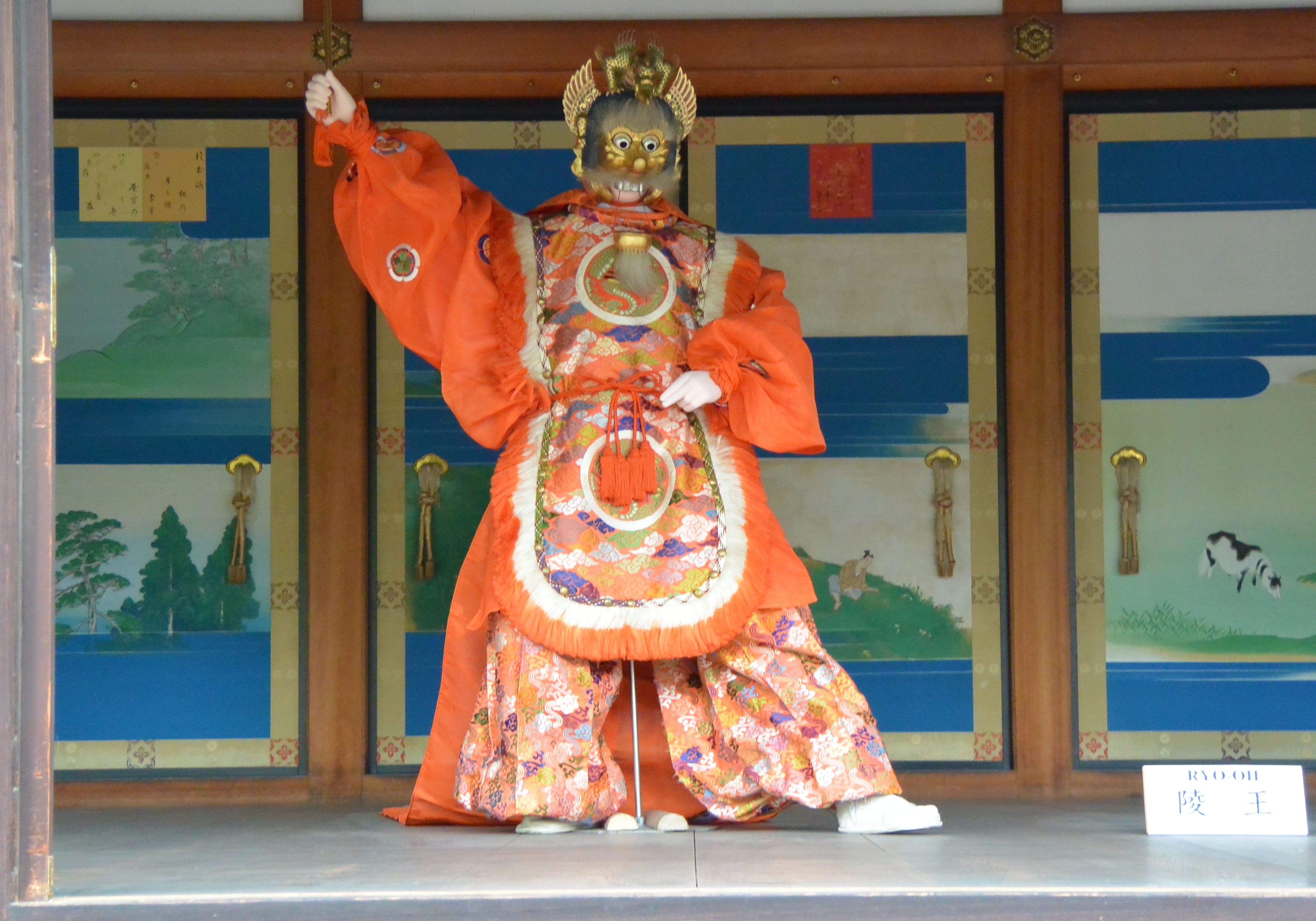 Ryo-oh figure, Japanese traditional dance